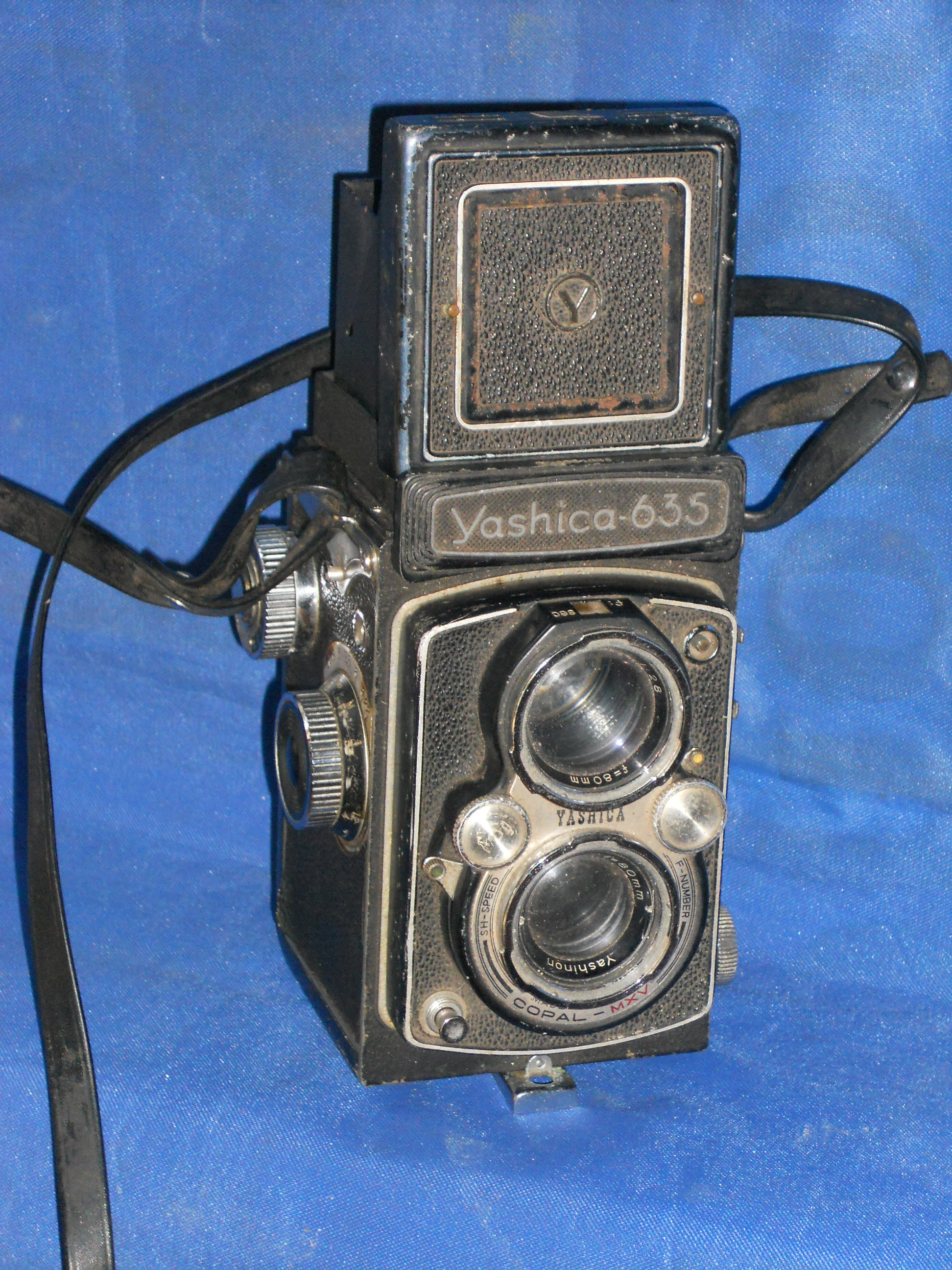 Yashica_120_camera